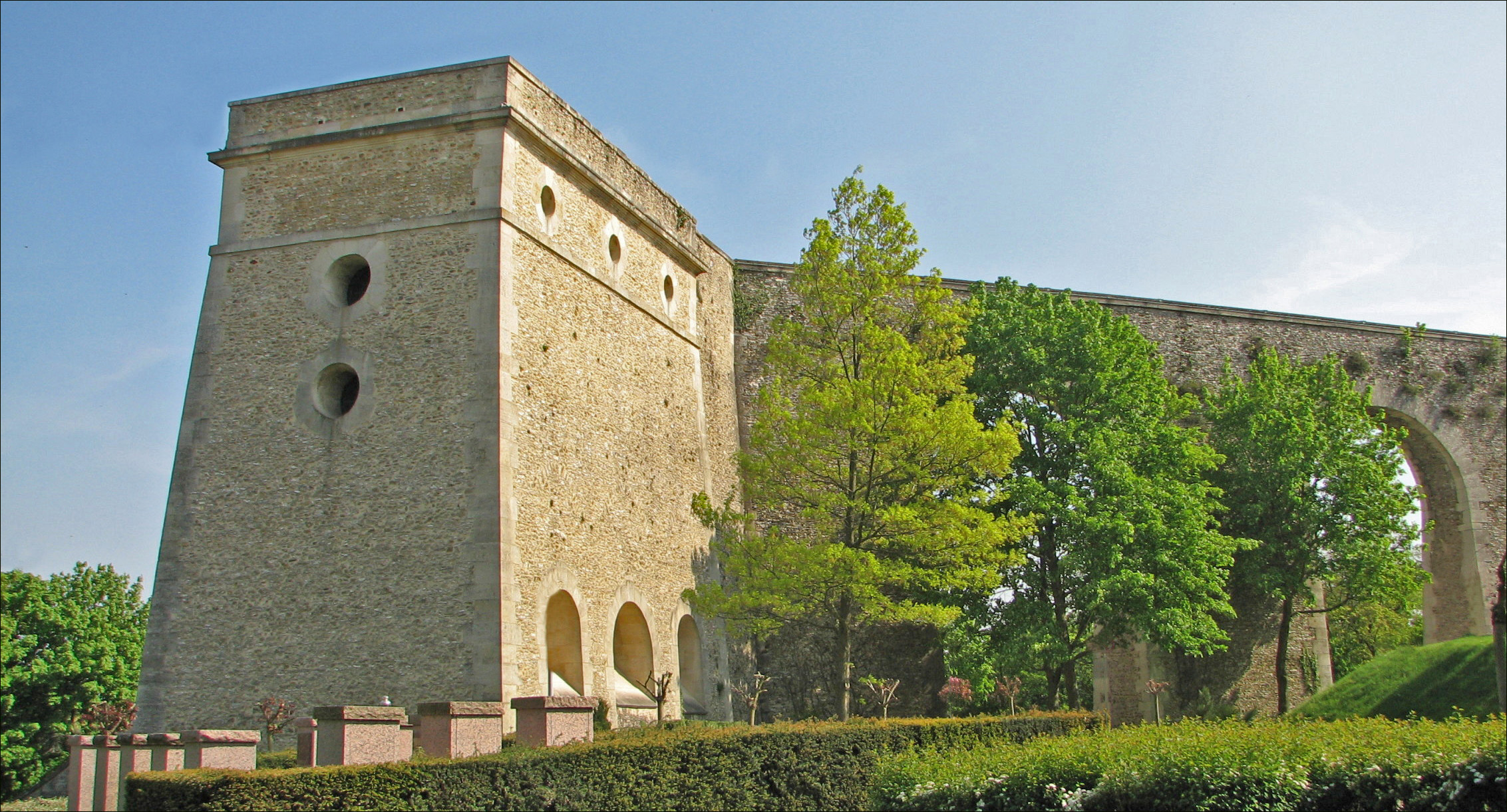 Marly Machines. The water tower of the Levant.